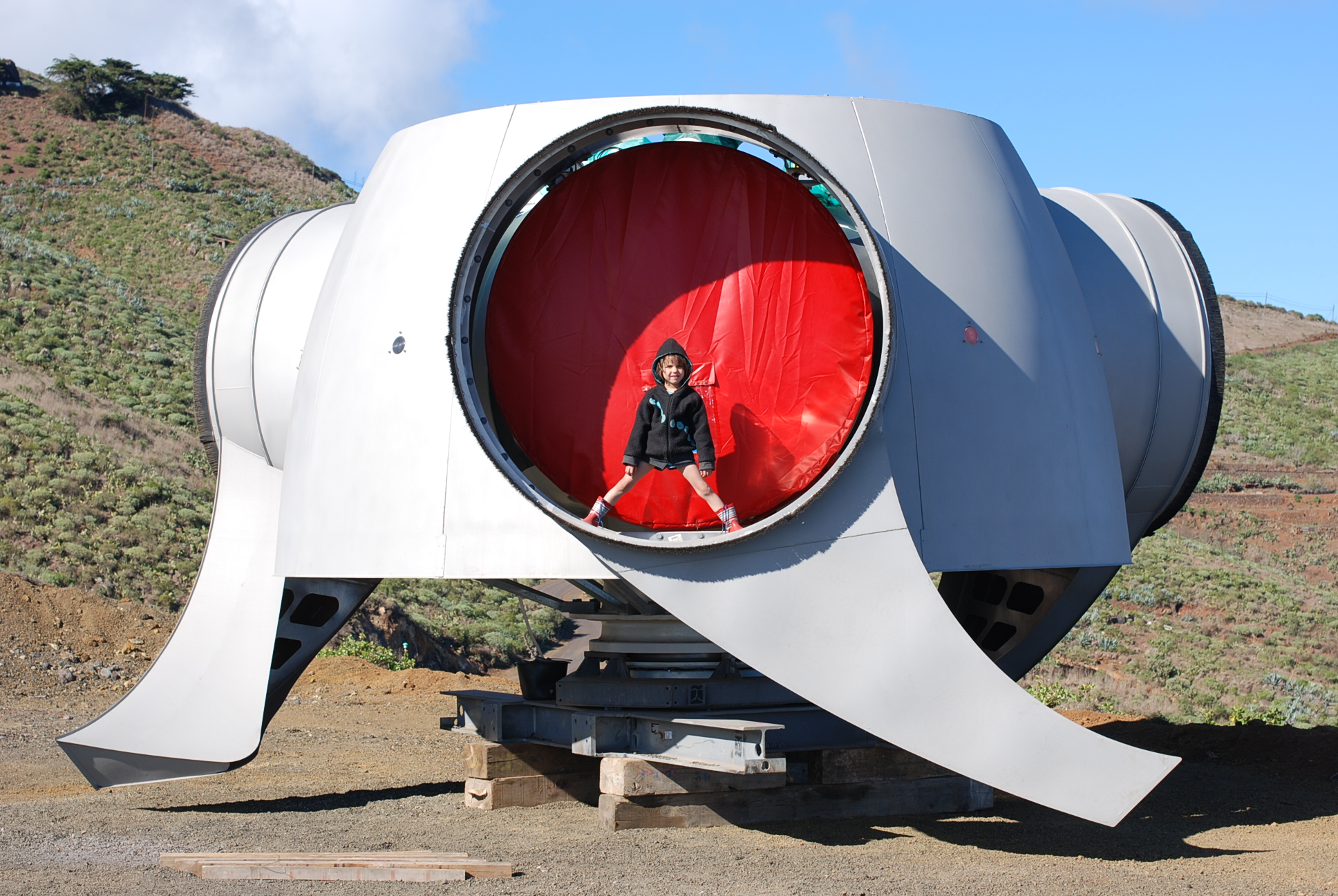 Size comparison of a five year old child in a wind turbine rotor hub without blades (Enercon E-70) photographed on El Hierro island.